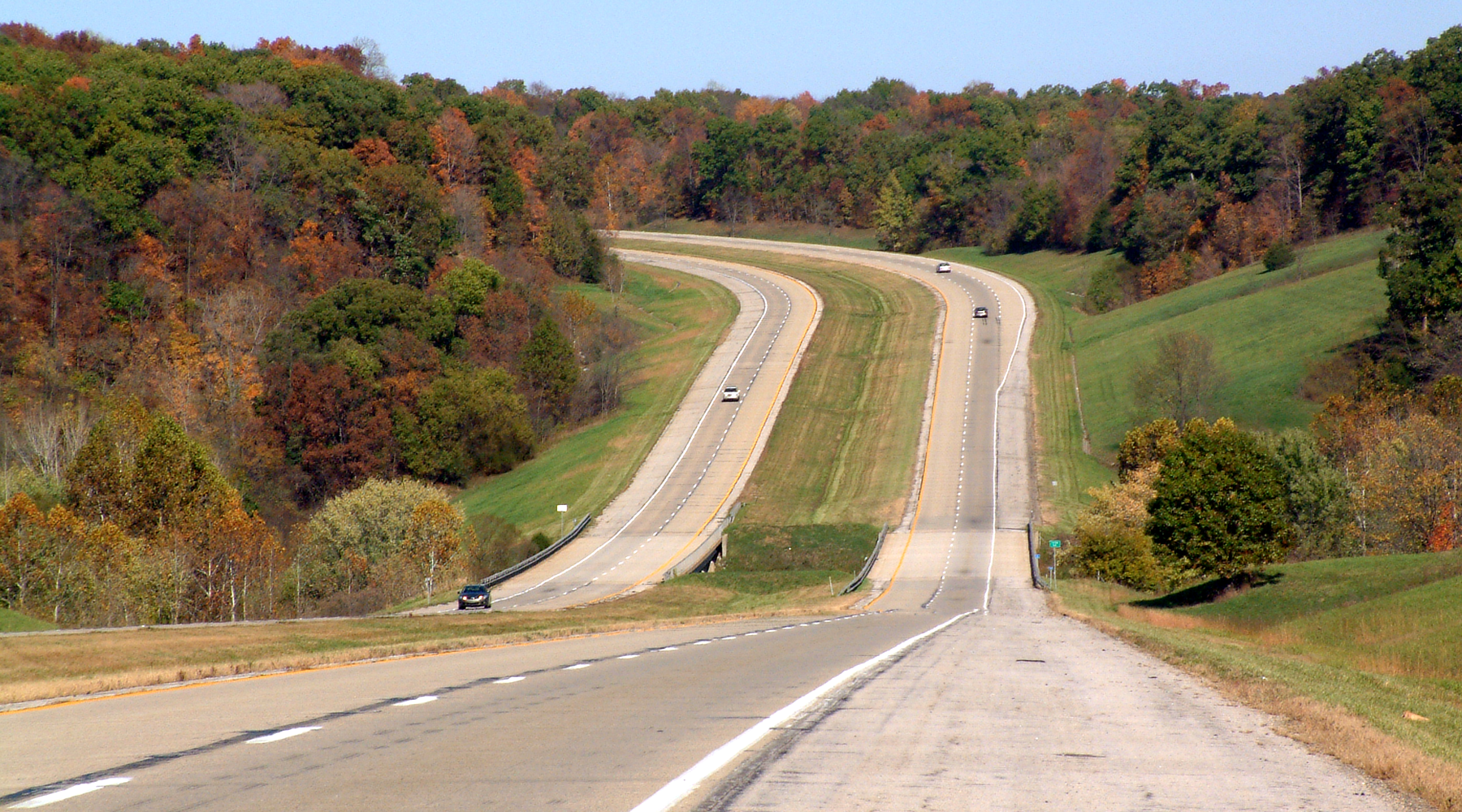 Looking north along Indiana State Road 63 from Baltimore Hill, two miles north of U.S. Route 136 in Warren County, Indiana. The bridge at the bottom of the valley crosses Possum Run.